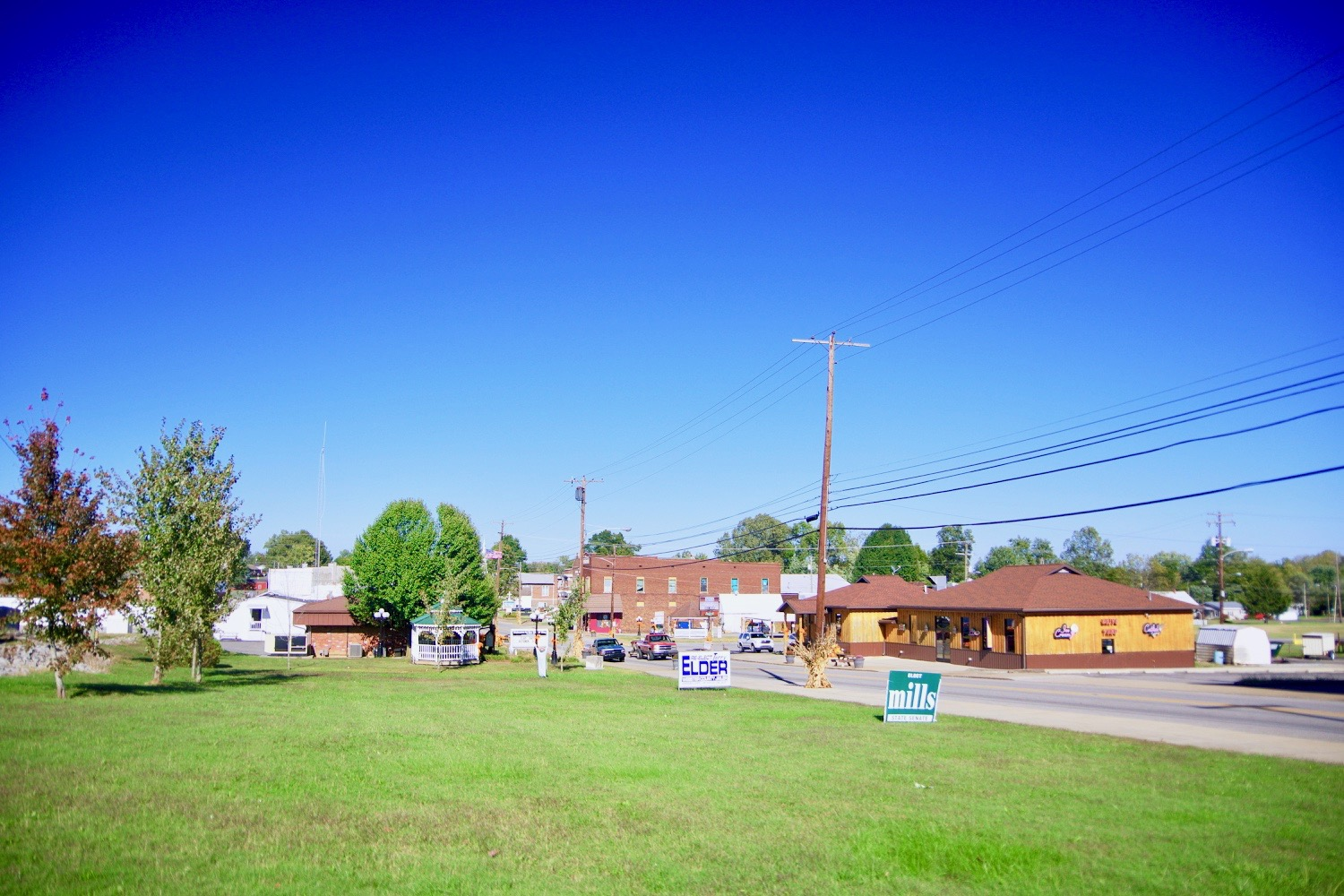 Businesses along Main Street (Kentucky Route 109) in Clay, Kentucky, United States.